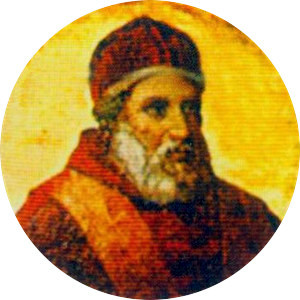 Portait of Pope Benedict XII in the Basilica of Saint Paul Outside the Walls, Rome